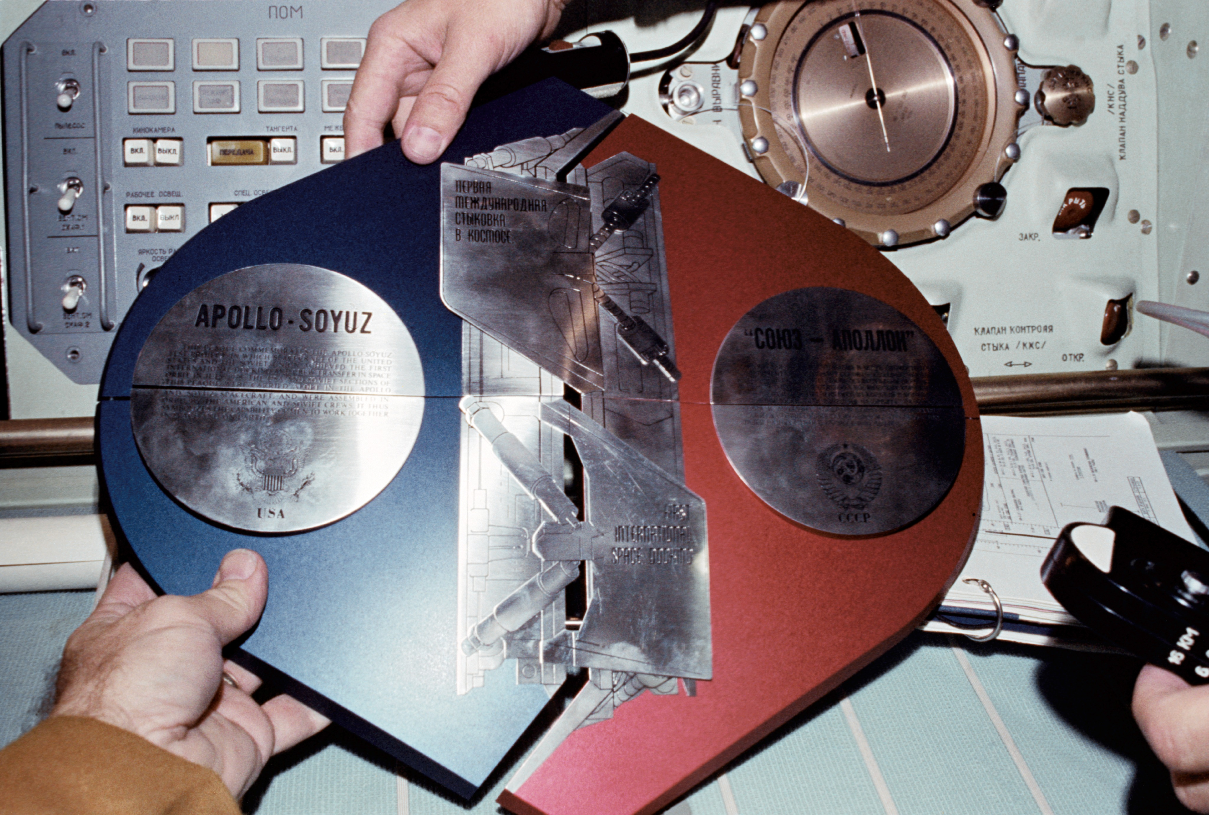 On July 17, 1975, Cold War rivals America and the Soviet Union met in Earth orbit as American Apollo astronauts Tom Stafford, Vance Brand and Deke Slayton docked with Soviet Soyuz cosmonauts Aleksey Leonov and Valeriy Kubasov. During their joint mission, the astronauts and cosmonauts assembled this commemorative plaque in orbit as a symbol of the international cooperation. The American side is blue with English text, while the Soviet side is red with Russian text.